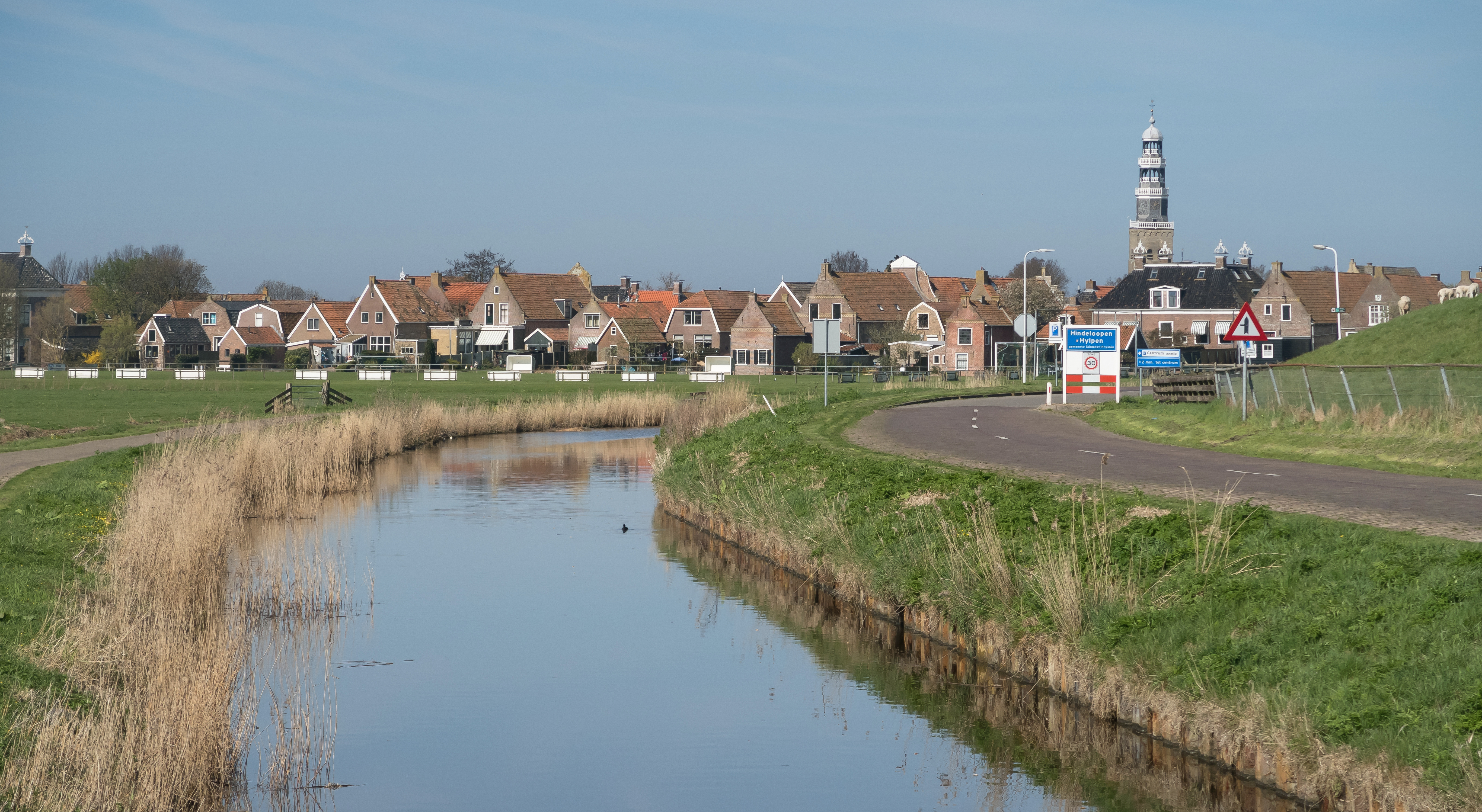 Hindeloopen, view to the town from the small bridge near the Sudersewei with church (de Grote Kerk) in the background